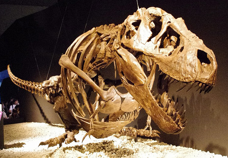 Tyrannosaurus named "Bucky", resting pose. Exhibited in "THE DINOSAUR EXPO 2011", Special Exhibition of the National Museum of Nature and Science, Tokyo, Japan.